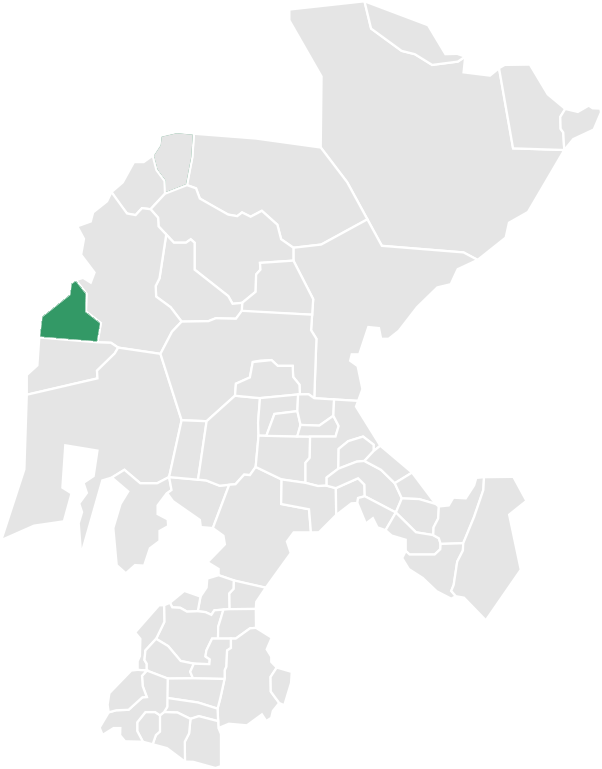 Map of the Municipality of Chalchihuites in Zacatecas, México.